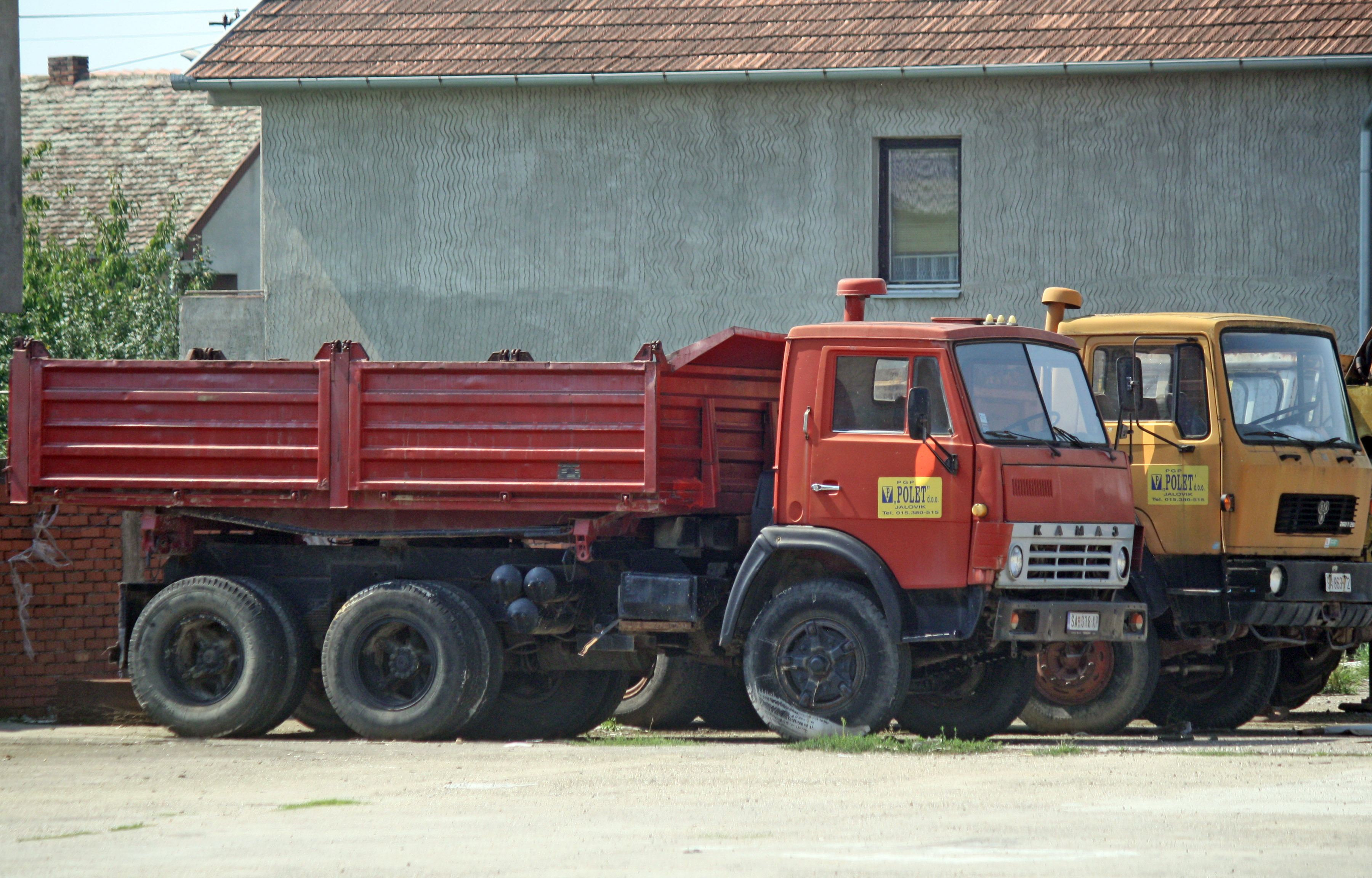 Kamaz and TAM dump trucks in Šabac, Serbia.